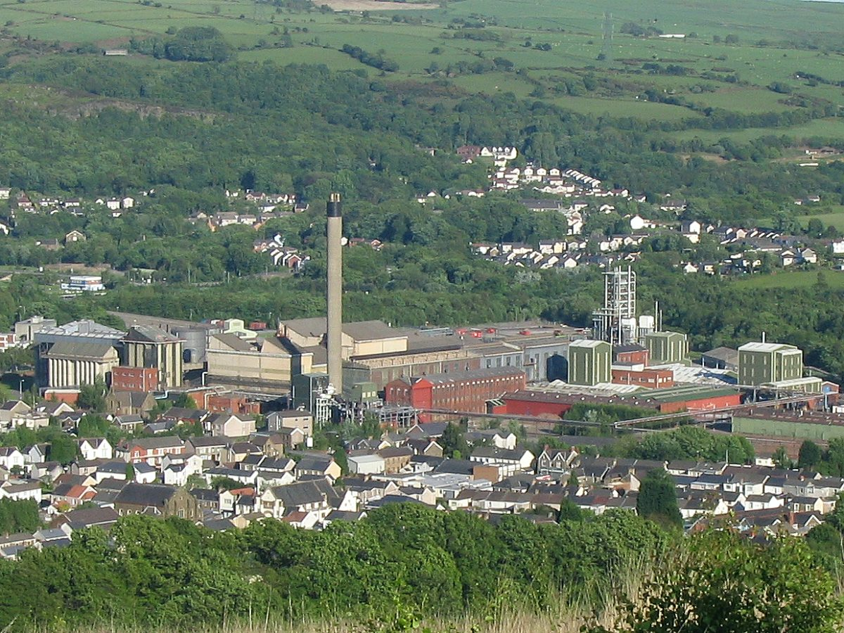 Clydach Refinery seen from above. Here is a view of the Inco nickel refinery as seen from the trail up Mynydd Gelliwastad.